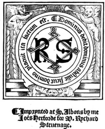 Antiquarian engraving c. 1785 copying a printer's mark from the press of St Albans, Hertfordshire, England, used in a book of 1536 by John Gwynneth entitled "The confutacyon of the fyrst parte of Frythes boke"